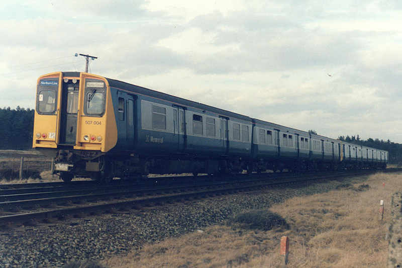 Merseyrail class 507 emus nos. 507.004 & 507.011 with evening Northern Line service from Hunts Cross to Southport. Location: Freshfield, Merseyside, UK